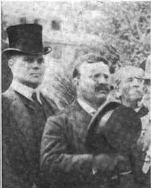 Secret Service bodyguard William Craig with President Theodore Roosevelt.